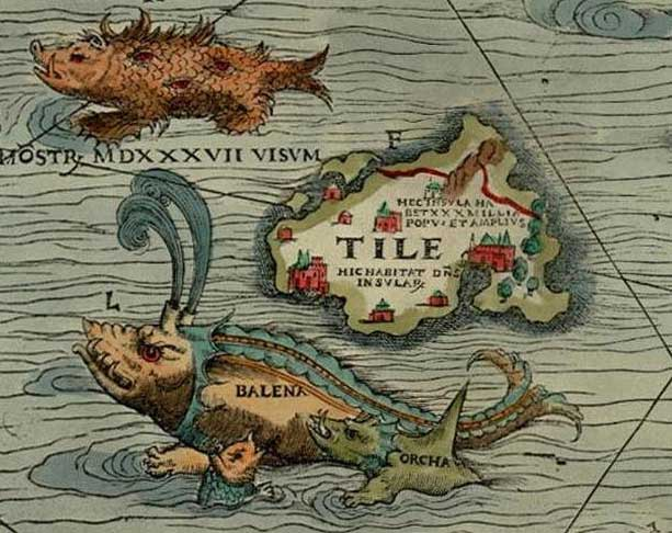 The mythical island of Thule on the Carta Marina